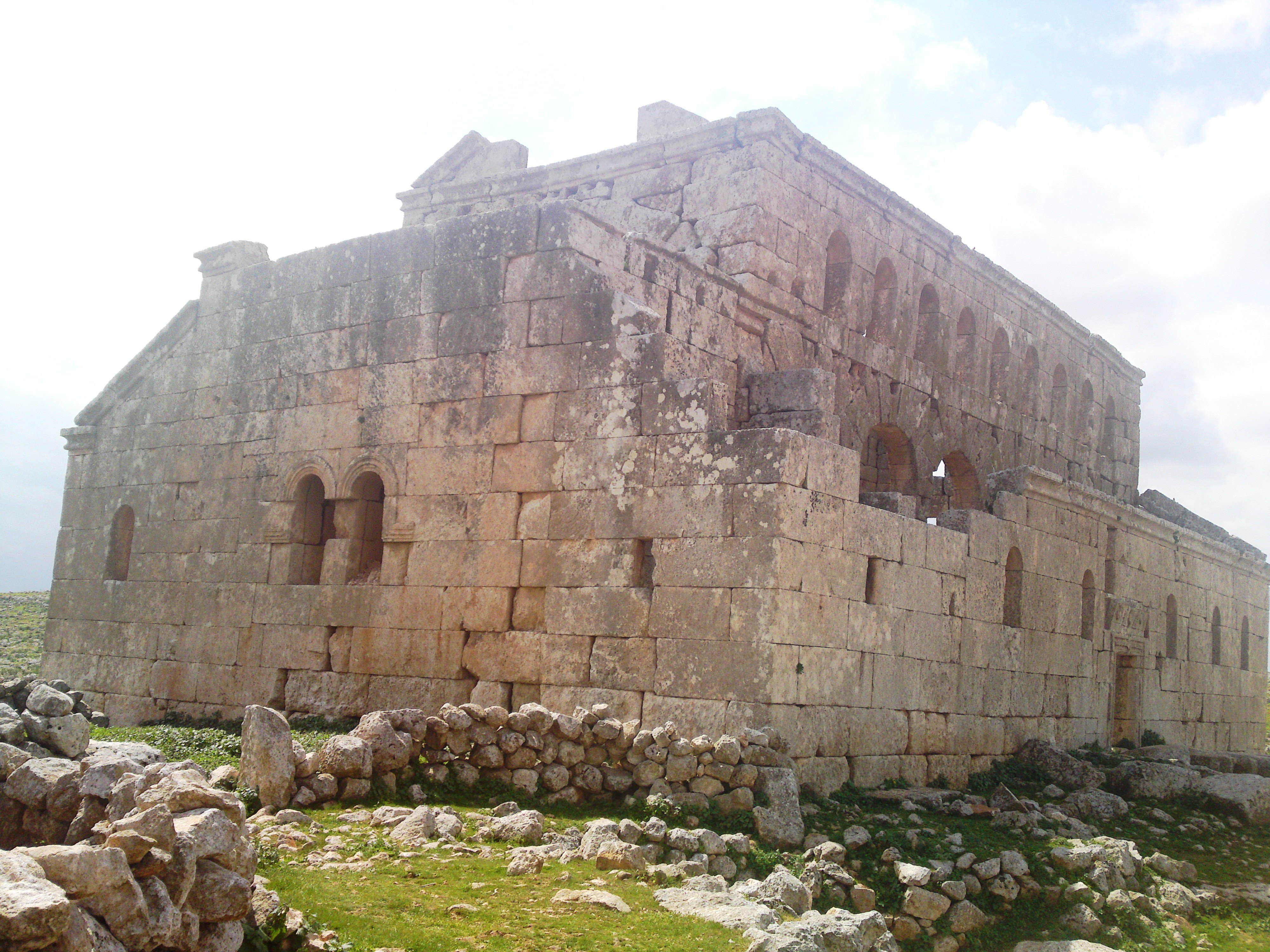 Almoshabbak palace allocated on a hill near to Daret Ezza village only 25 minutes to San Simone citadel (Samaan citadel) in Aleppo city country side - Syria